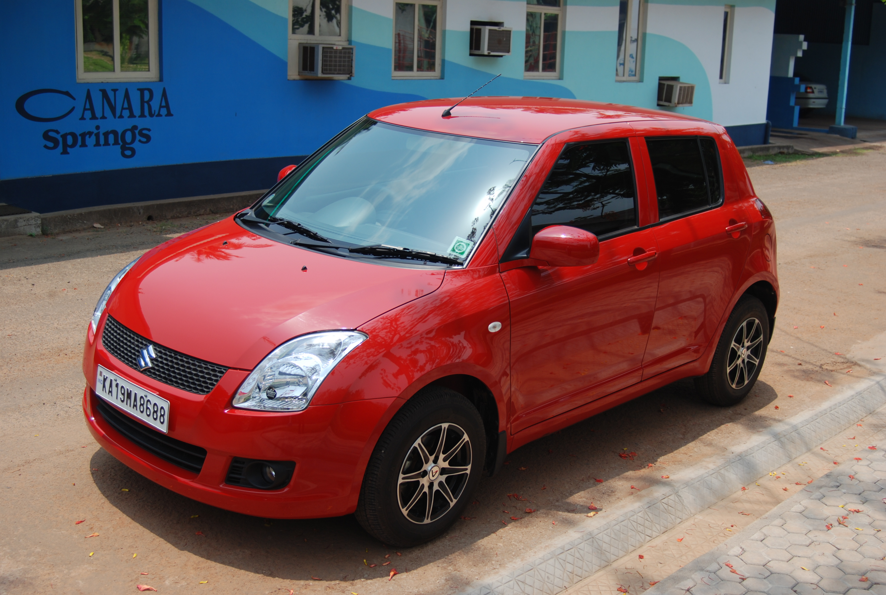 A Maruti Suzuki Swift VXi 2009 model.